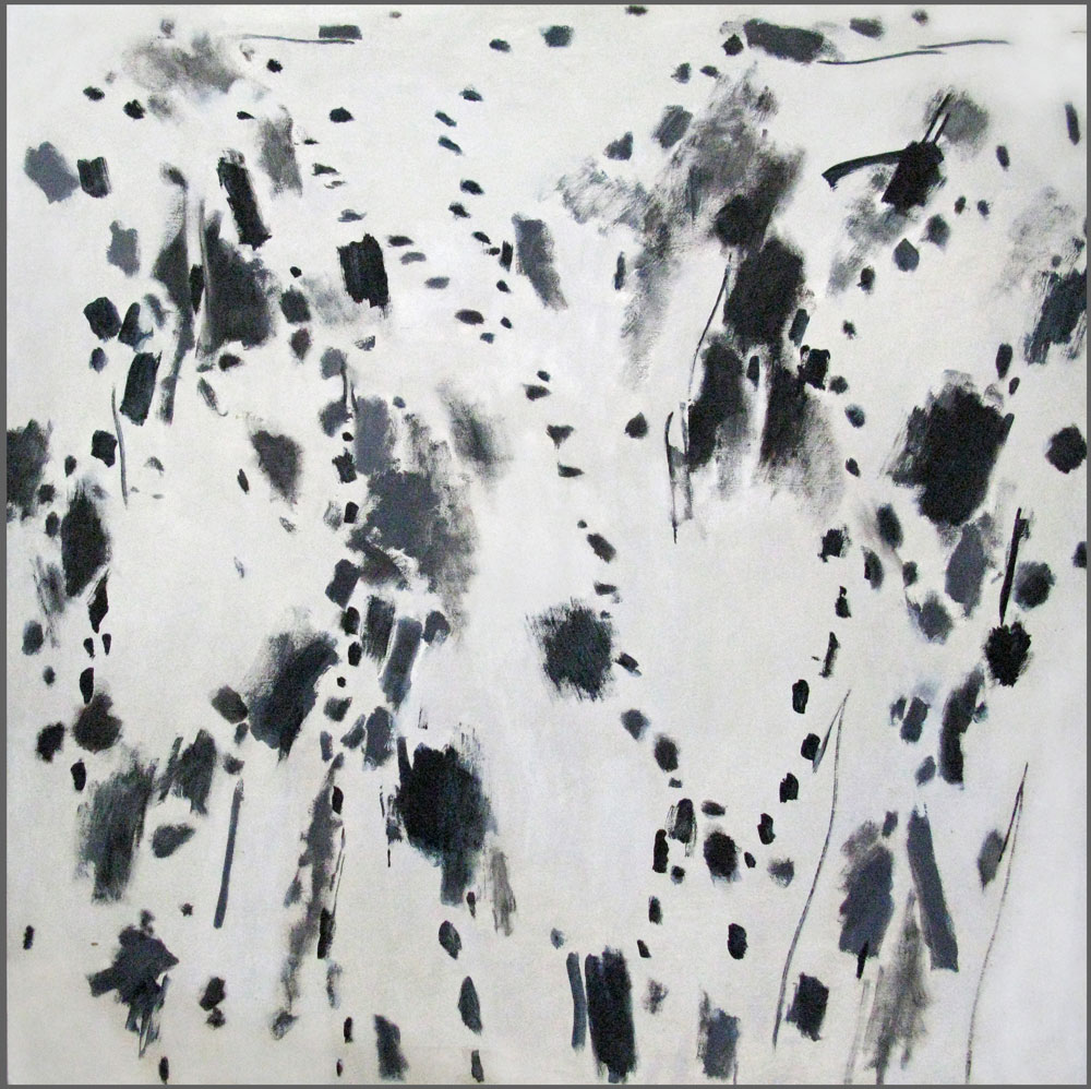 Structured Space by Paul Beattie, 1984, Acrylic on Masonite, 48×48